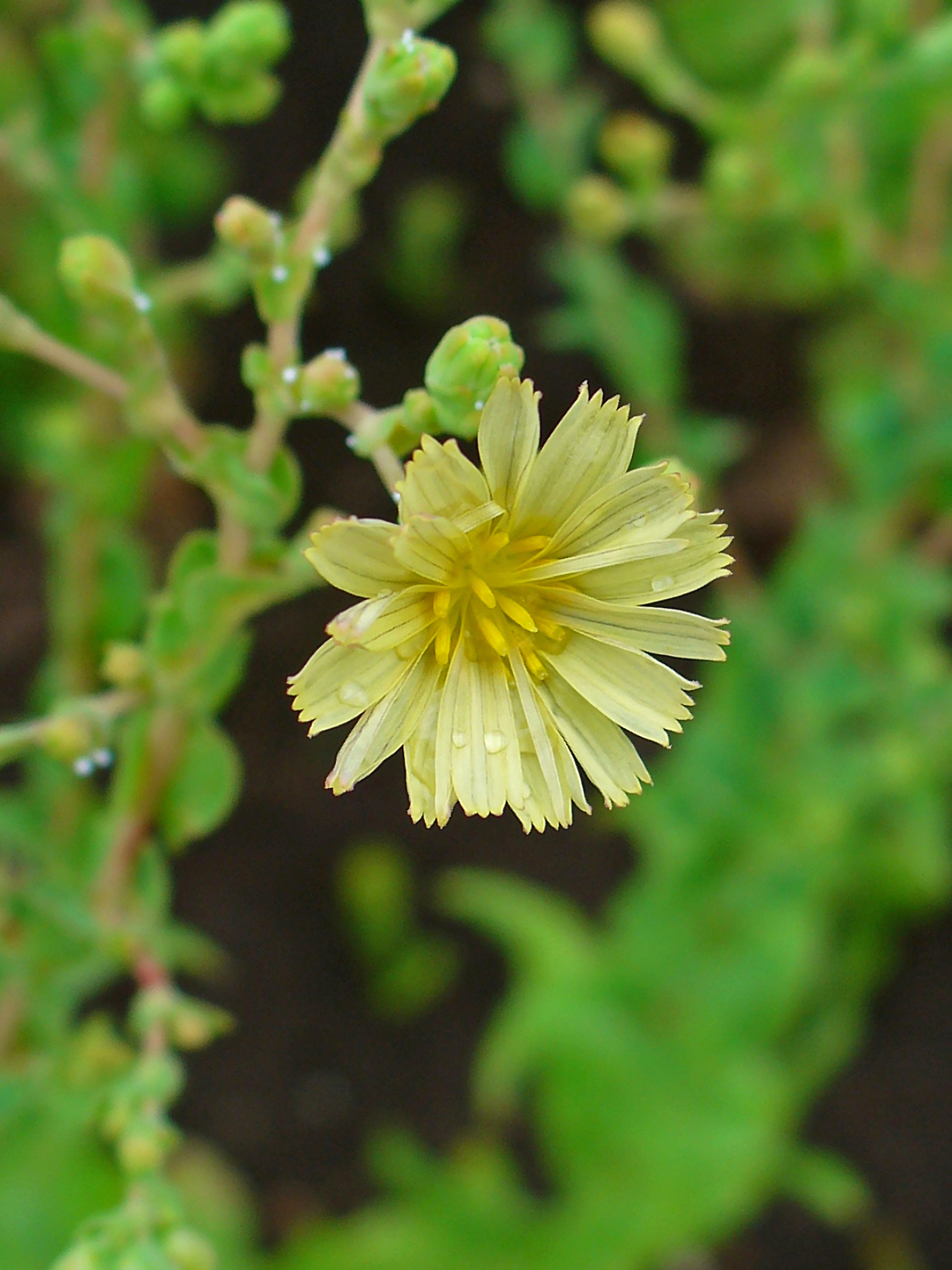 Lactuca sativa, Asteraceae, Lettuce, inflorescence. The fresh, aerial parts of blooming plants are used in homeopathy as remedy: Lactuca sativa (Lact-s.)